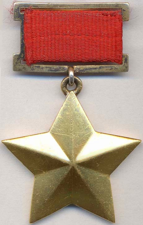 Medal “Gold Star” of a “Hero of the Soviet Union”